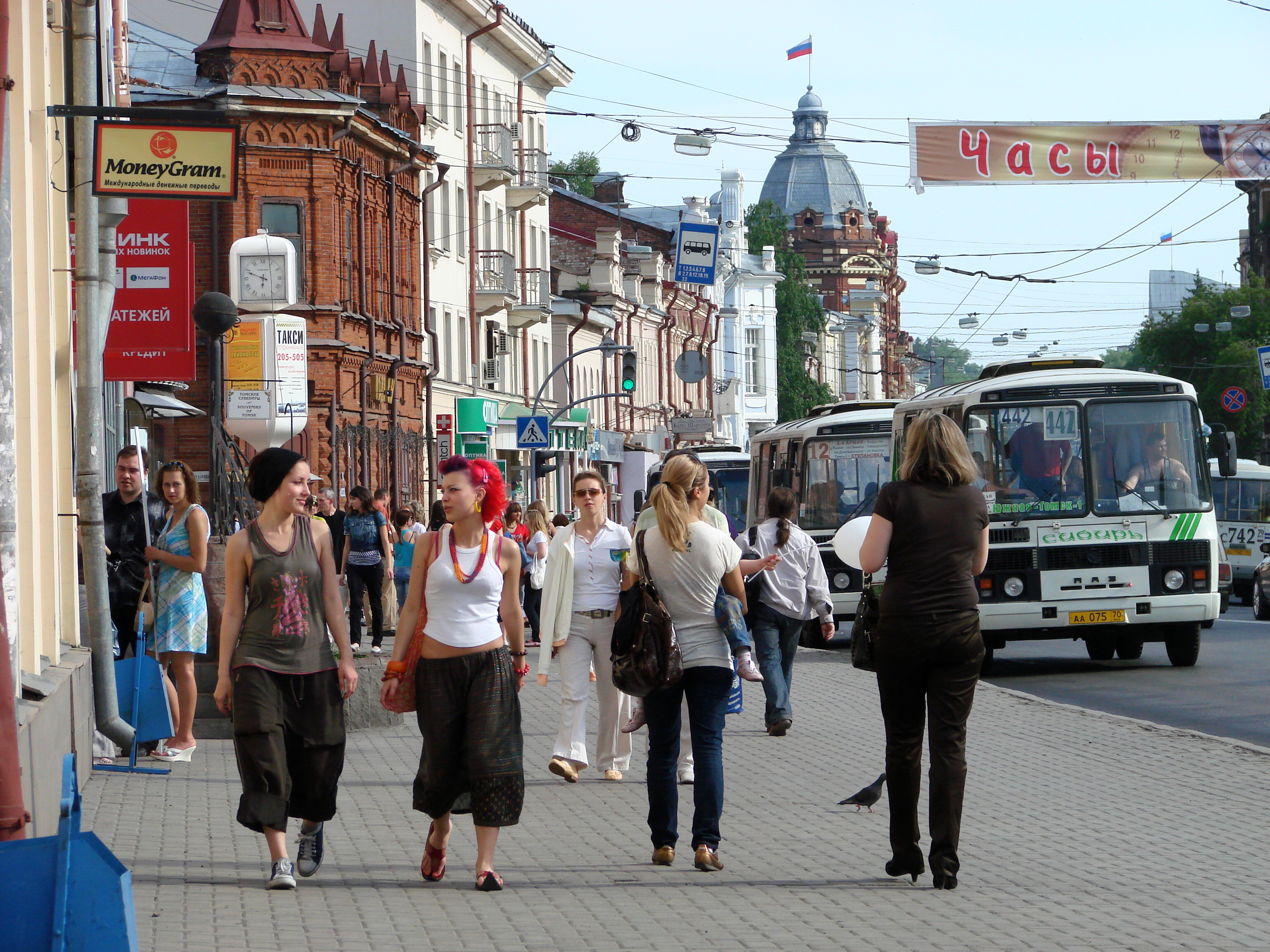 Street scene in Tomsk, Russia. June 2008.